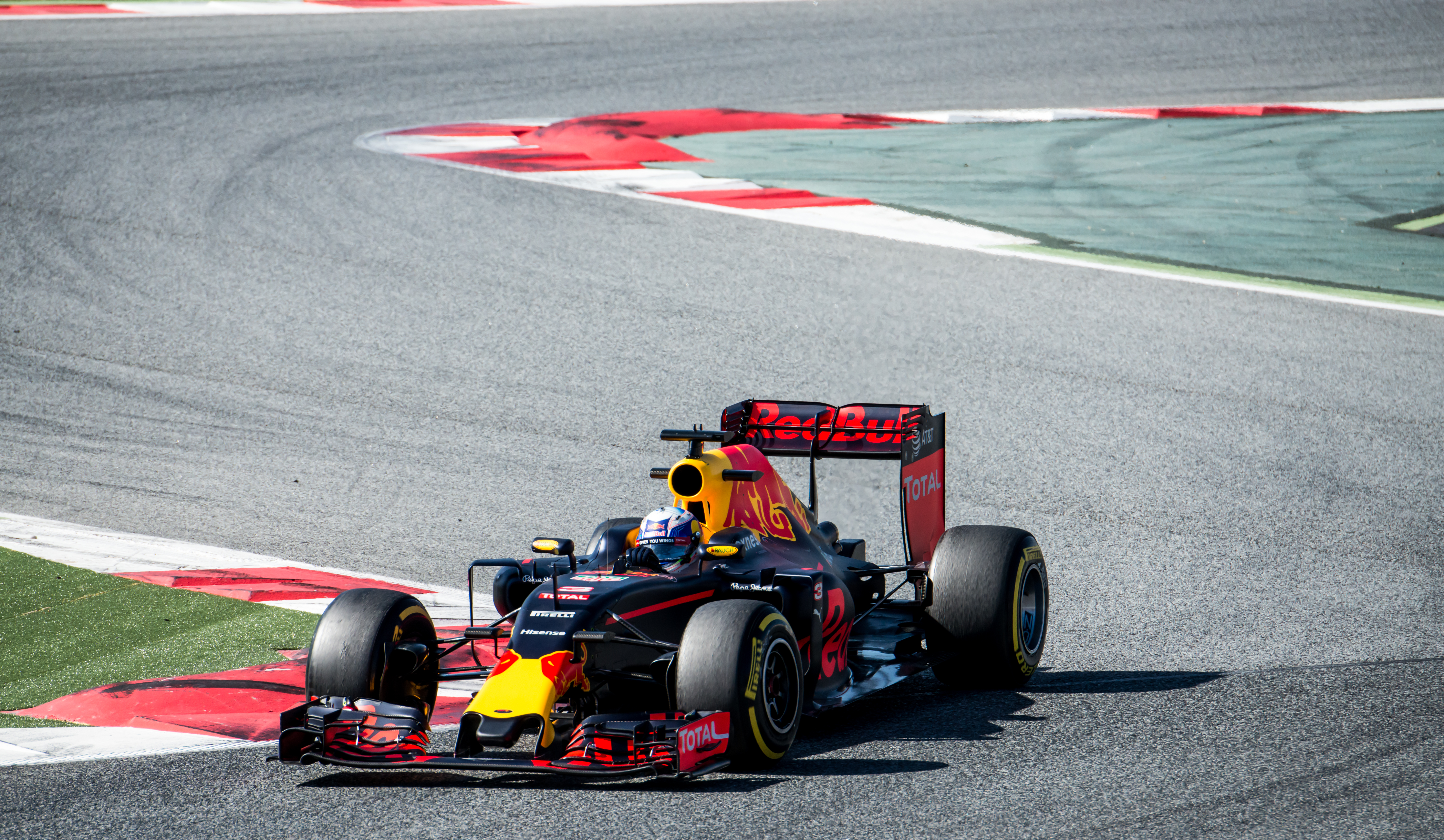 Daniel Ricciardo during 2016 Winter testing in a Red Bull RB12